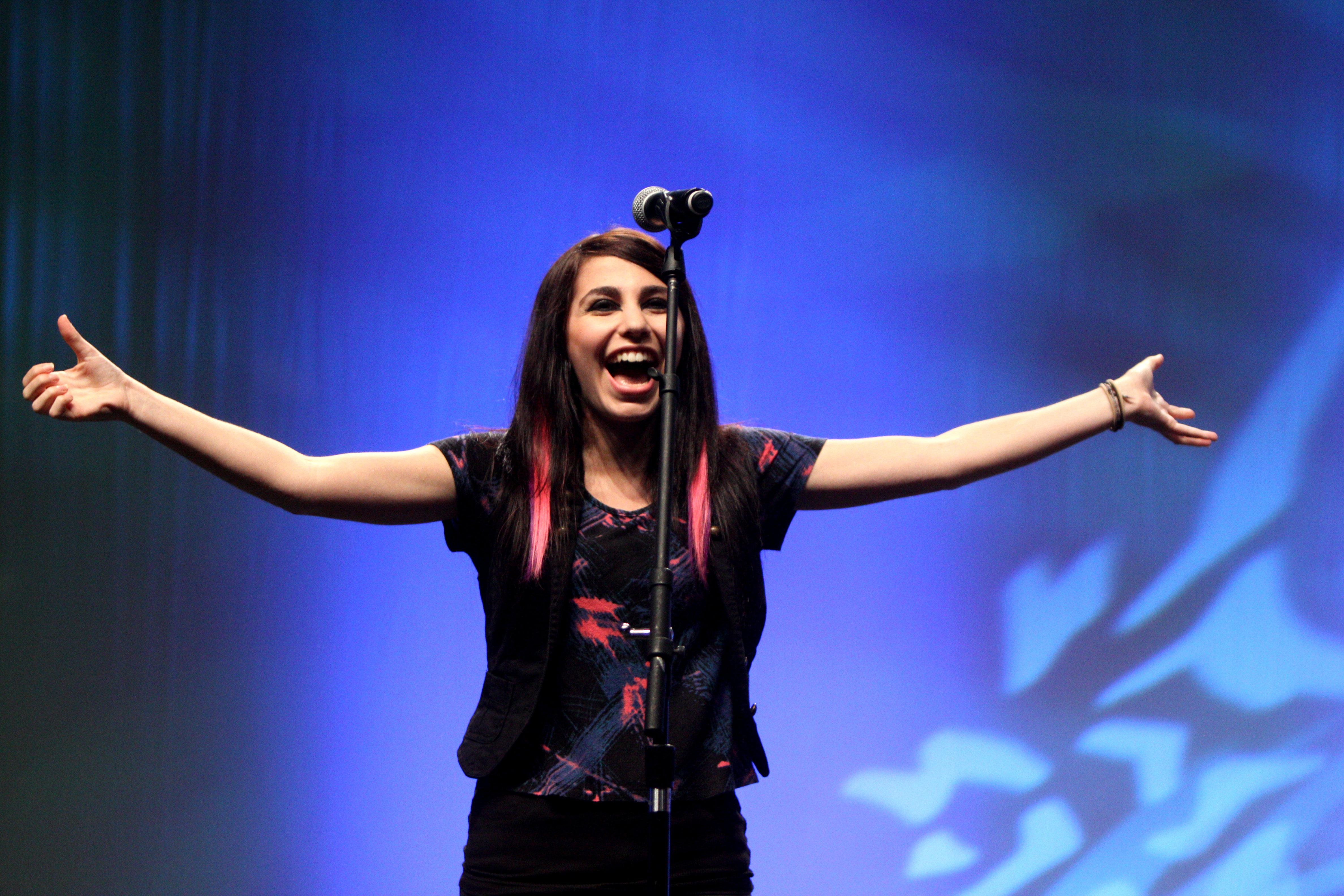 Scene of MyMusic speaking at VidCon 2012 at the Anaheim Convention Center in Anaheim, California.